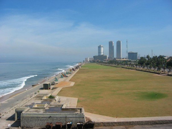 The Colombo World Trade Center in Sri Lanka.